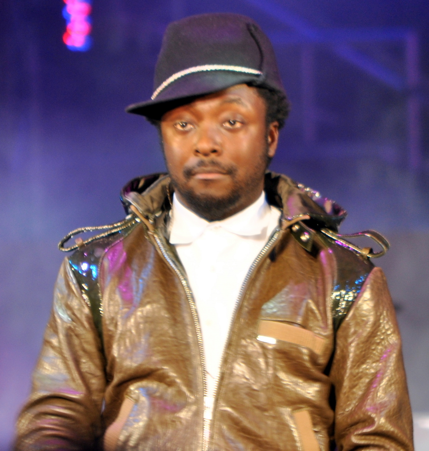 will.i.am at YouTube Live 2008.